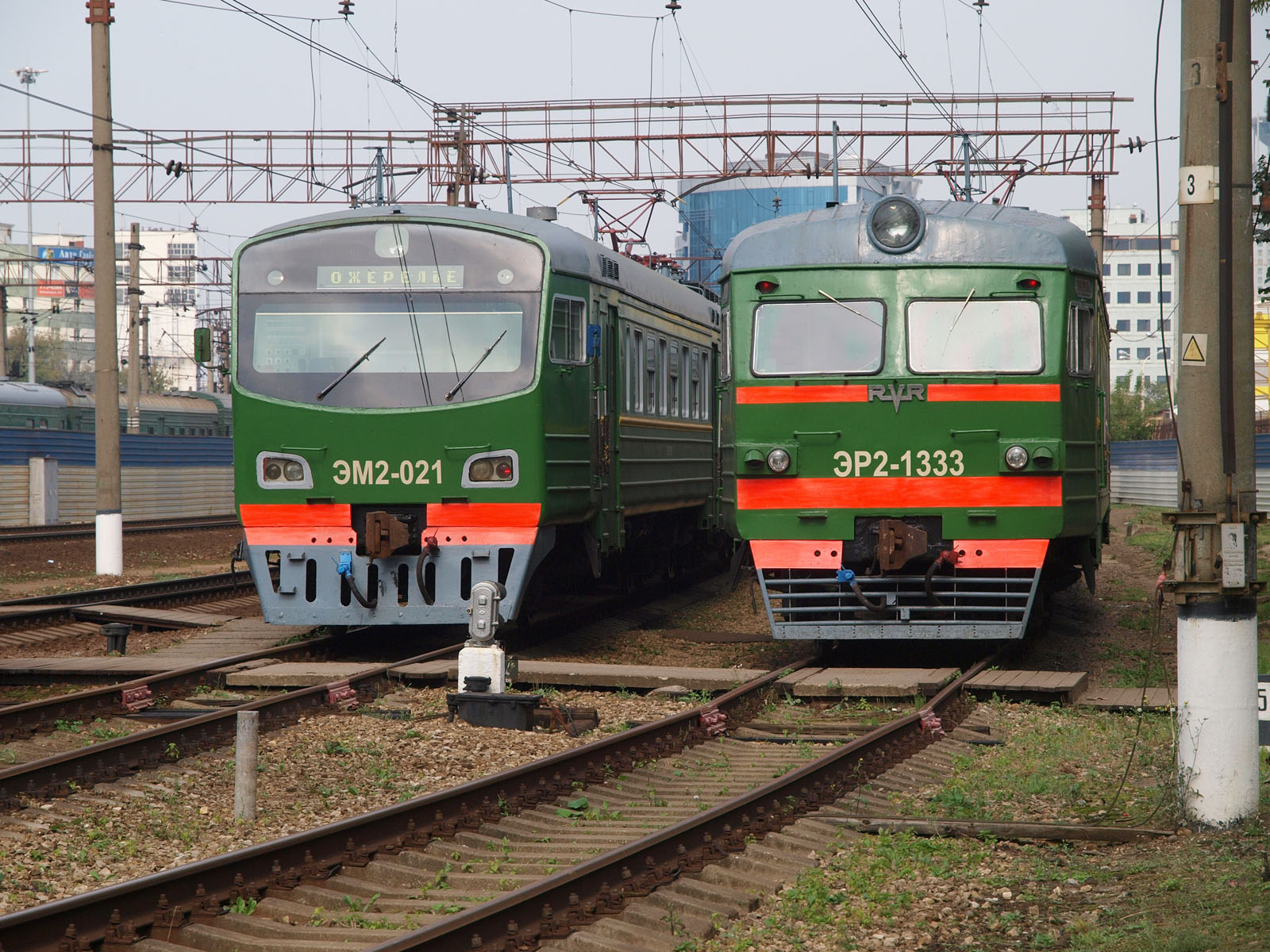 EM-2, ER-2 commuter trains in Moscow (Paveletskaya-Tovarnaya station reserve tracks near Paveletsky Terminal)